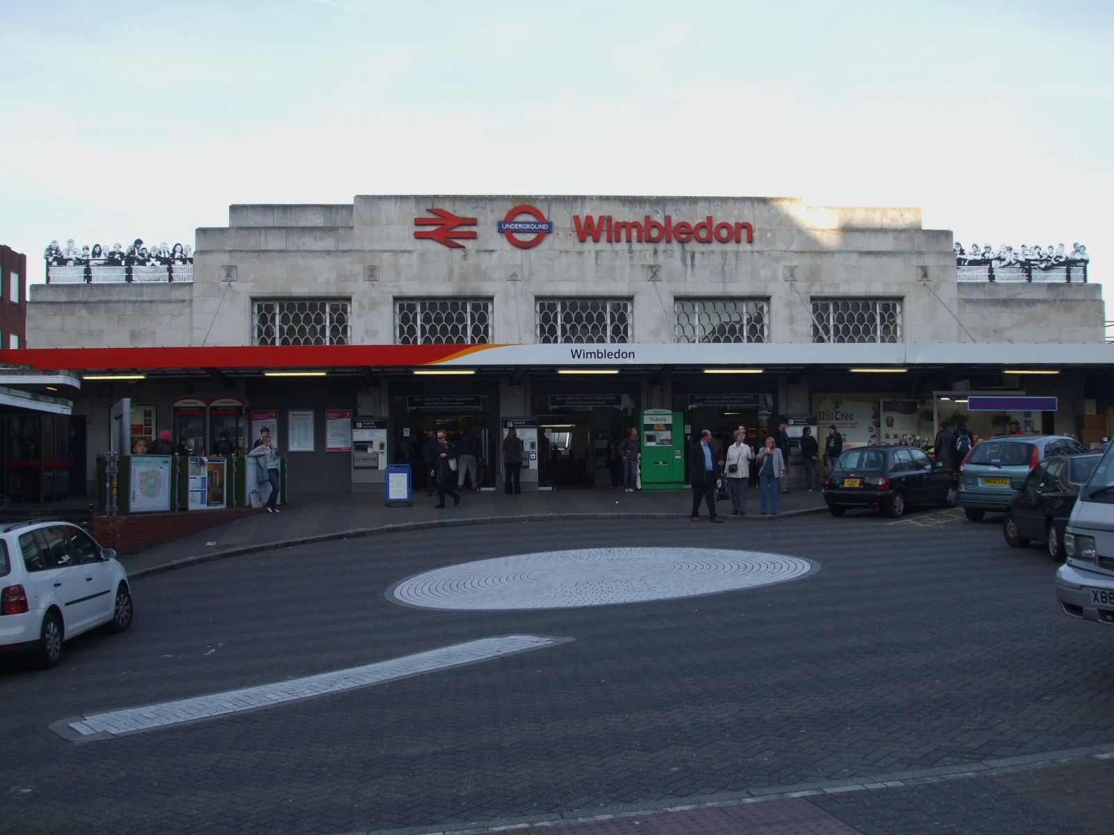 Wimbledon station main building.